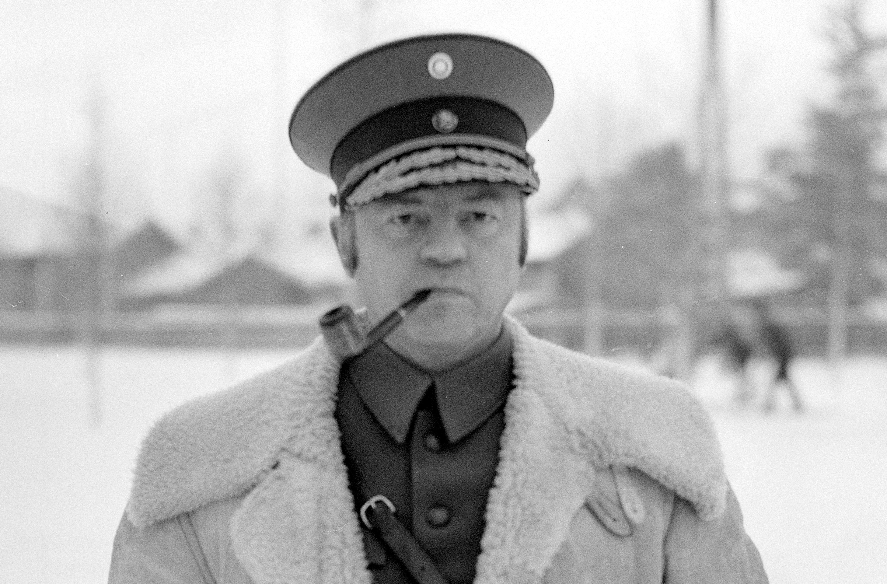 Major General K. M. Wallenius.